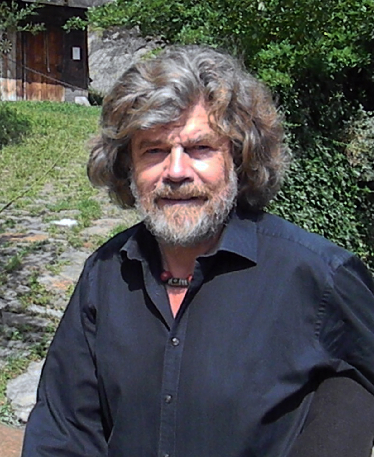 Reinhold Messner photographed at Castle Juval (Kastelbell-Tschars - South Tyrol) in august 2012.